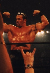 Buff Bagwell posing during a taping of WCW Monday Nitro from Minneapolis, Minnesota in 1998.